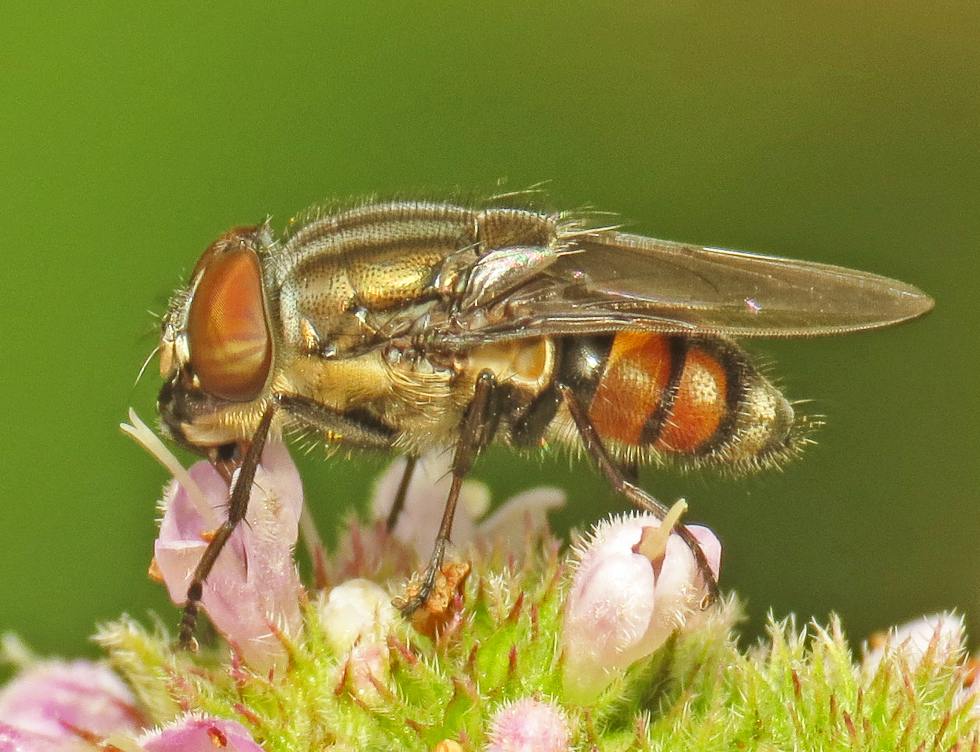 Stomorhina lunata (Calliphoridae) ID by Tony Irwin, A parasite of locust eggs, it is regarded as a late Summer migrant in the UK, though there is discussion whether it can also use grasshopper eggs.